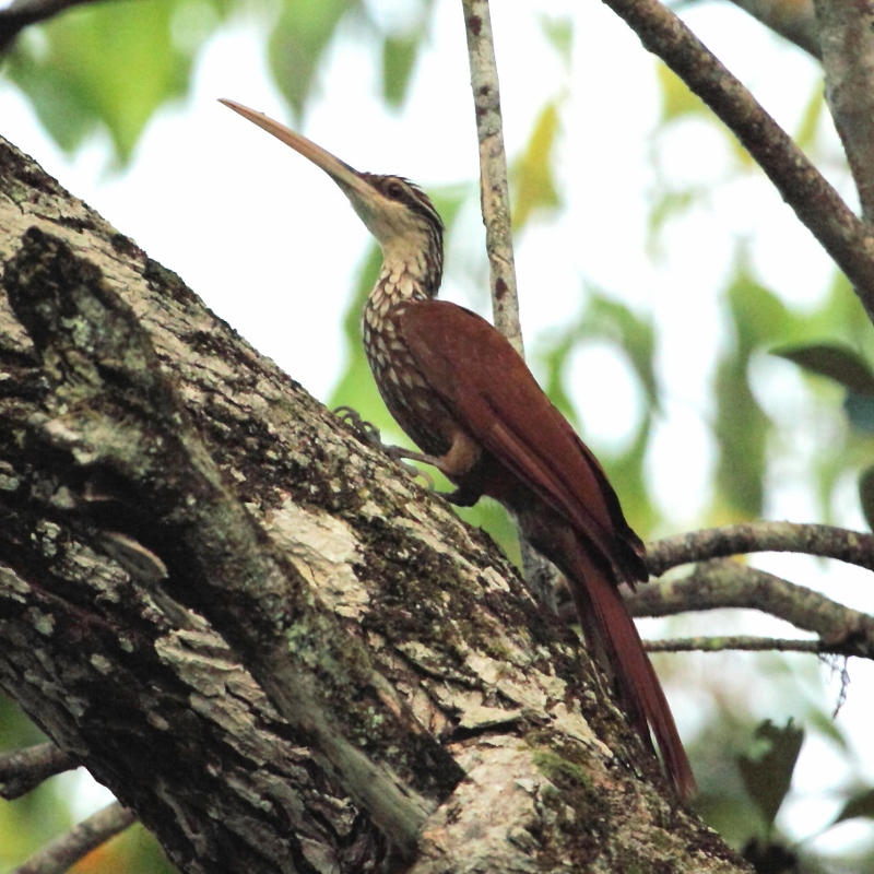 Long-billed Woodcreeper at Apiacás - MT - Brazil